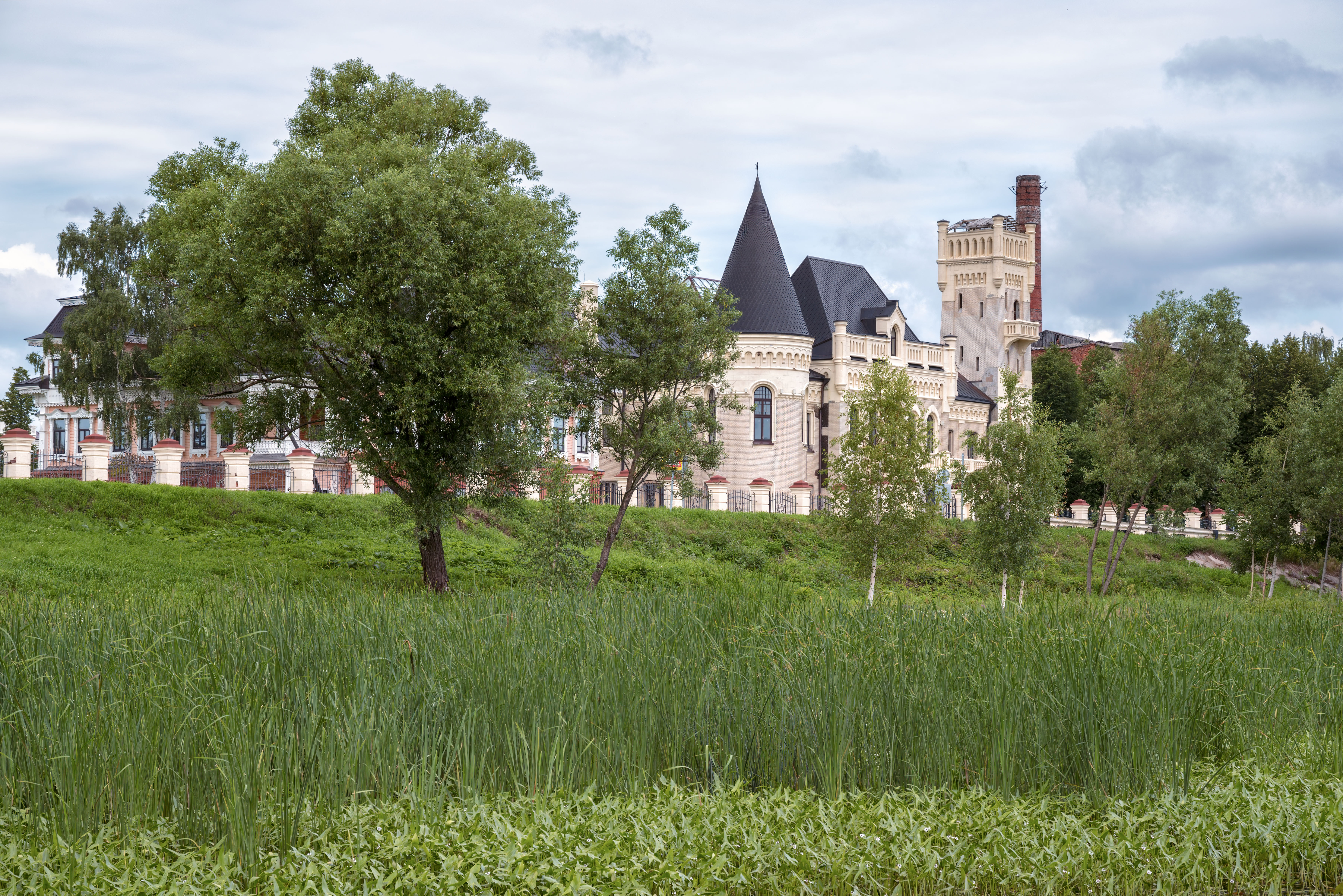 The so-called Ponizovkin's Palace in Krasny Profintern settlement. Yaroslavl Region, Russian Federation.